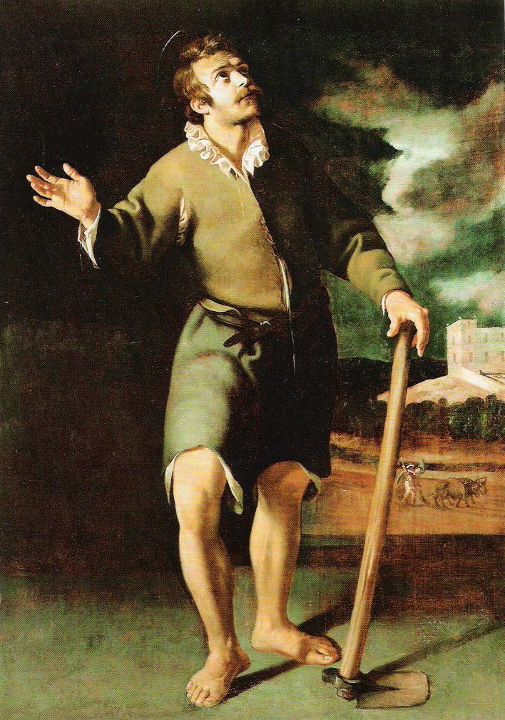 Juan van der Hamen y León - San Isidro